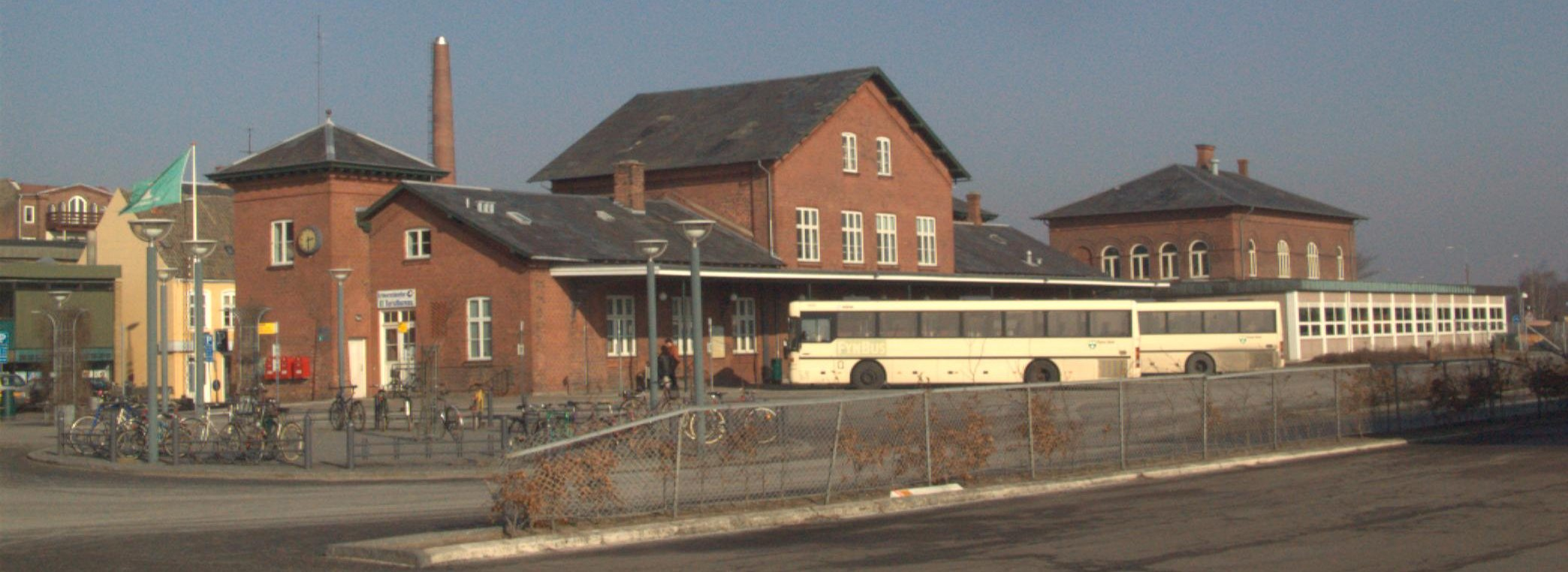 The former railroad station in Fåborg, Funen, Denmark. It is now a bus station.